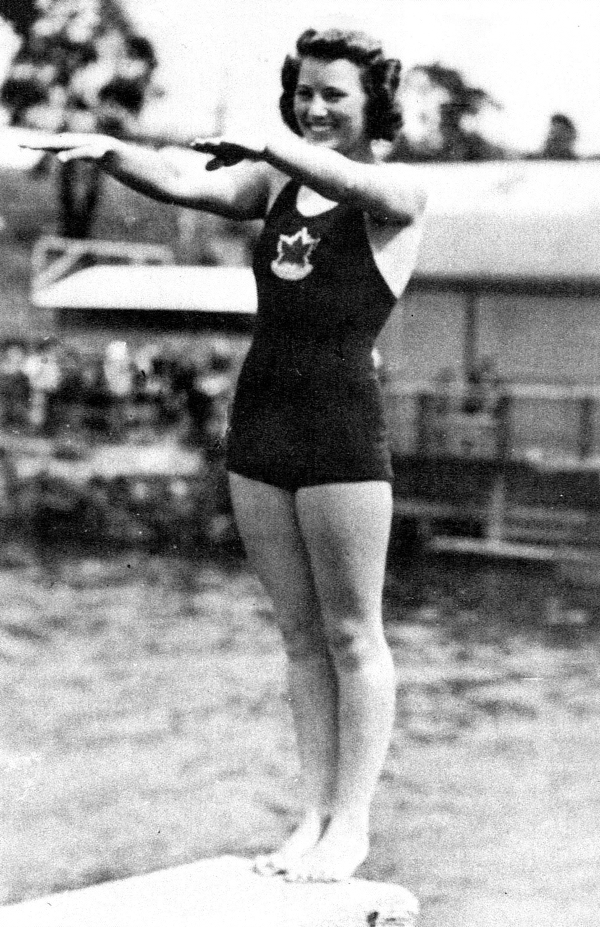 Lynda Adams on diving board at the Royal Hobart Centenary Regatta in Tasmania, Australia